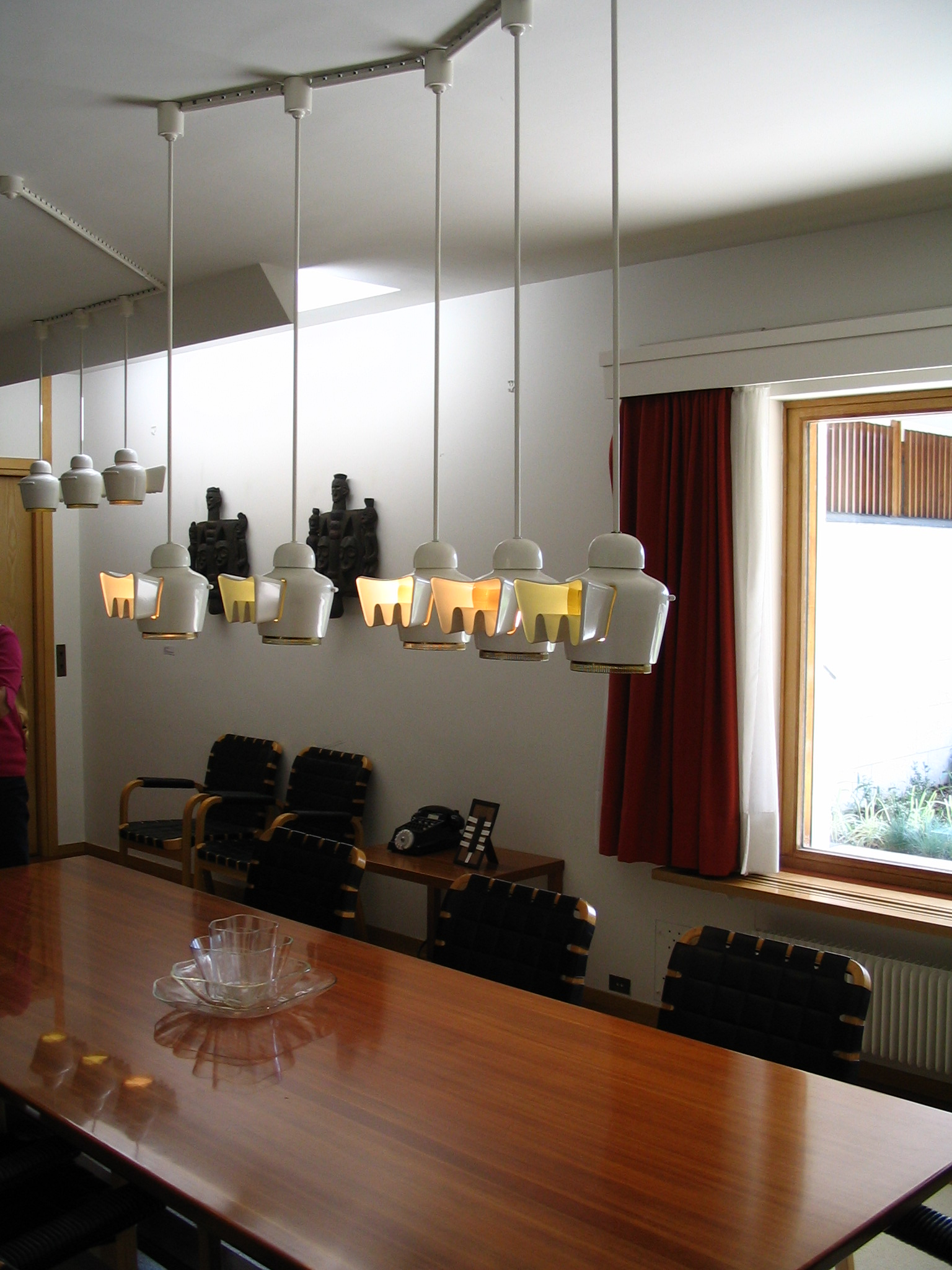 Furnishings and lighting fixtures in Louis Carré House, by Alvar Aalto, France